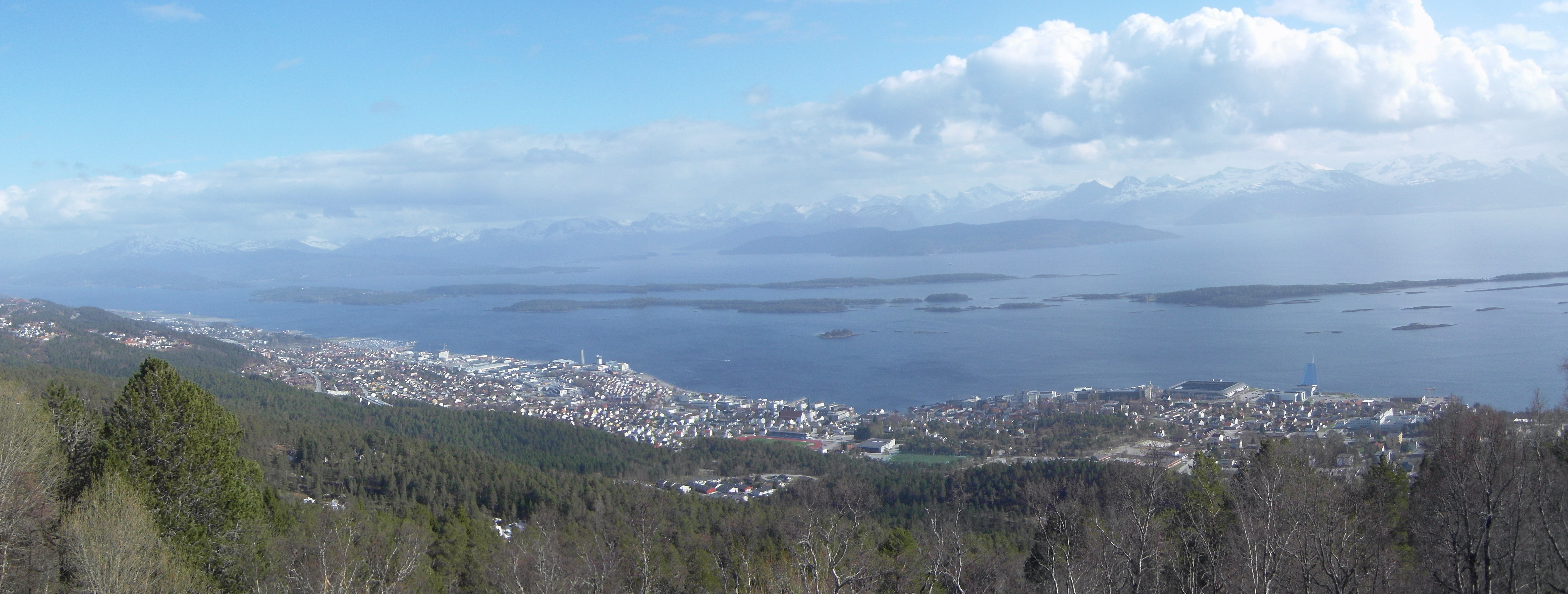 View from Varden